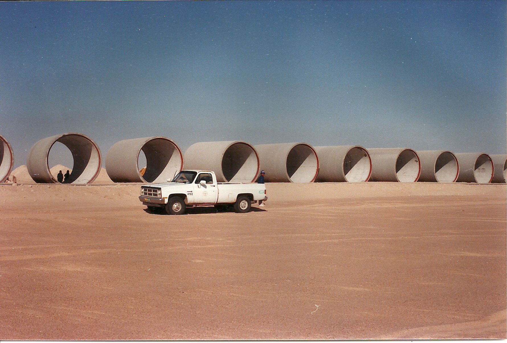 Irrigation pipe construction Libya